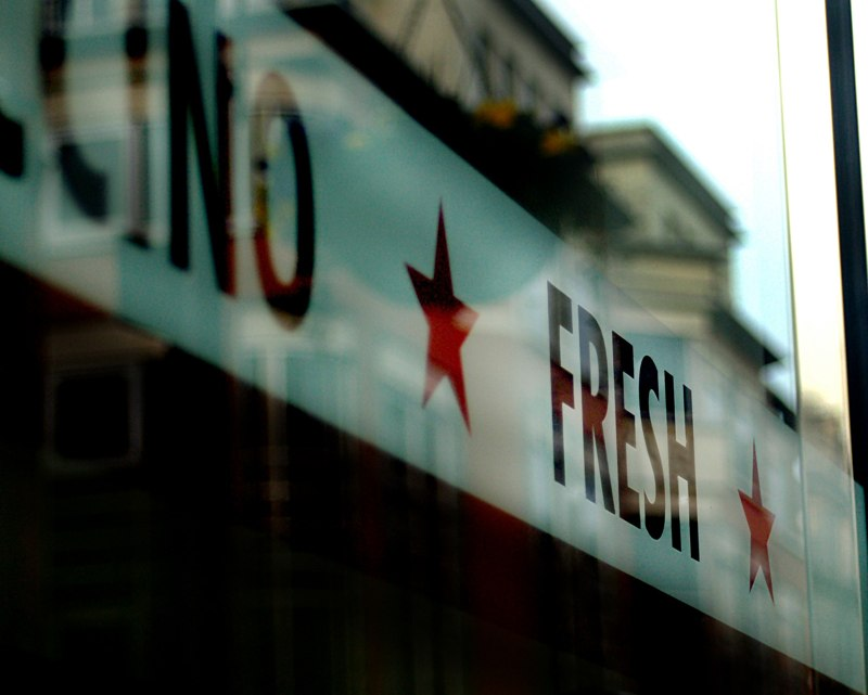 Pret A Manger graphic scheme, from a London storefront